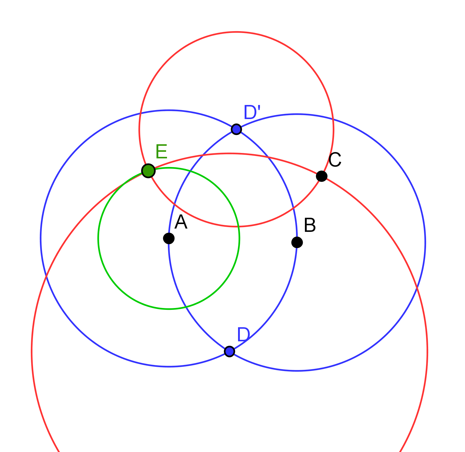 A proof of the equivalence of fixed and collapsible compasses, without using a straightedge.